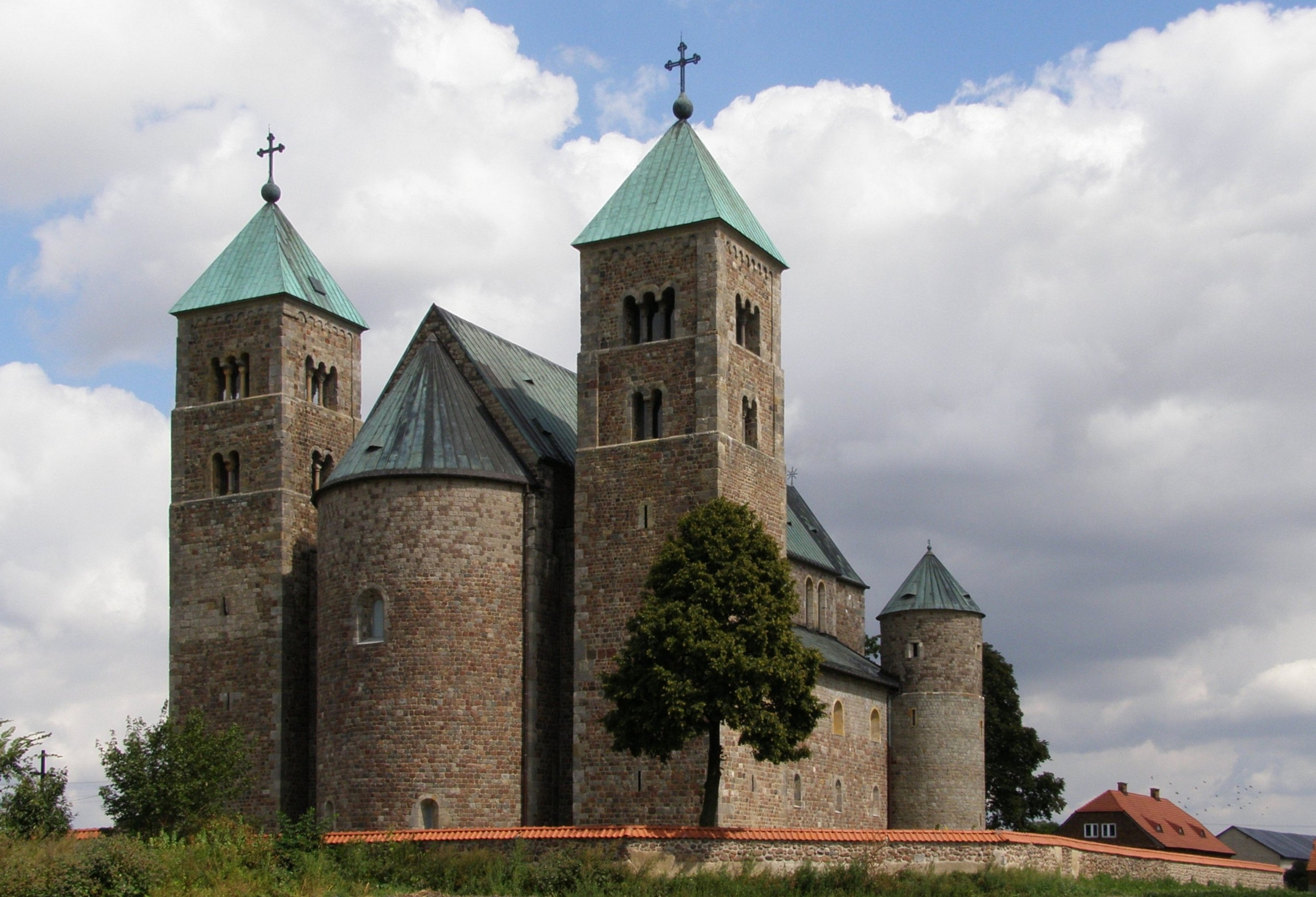 Collegiate church in Tum, Poland.